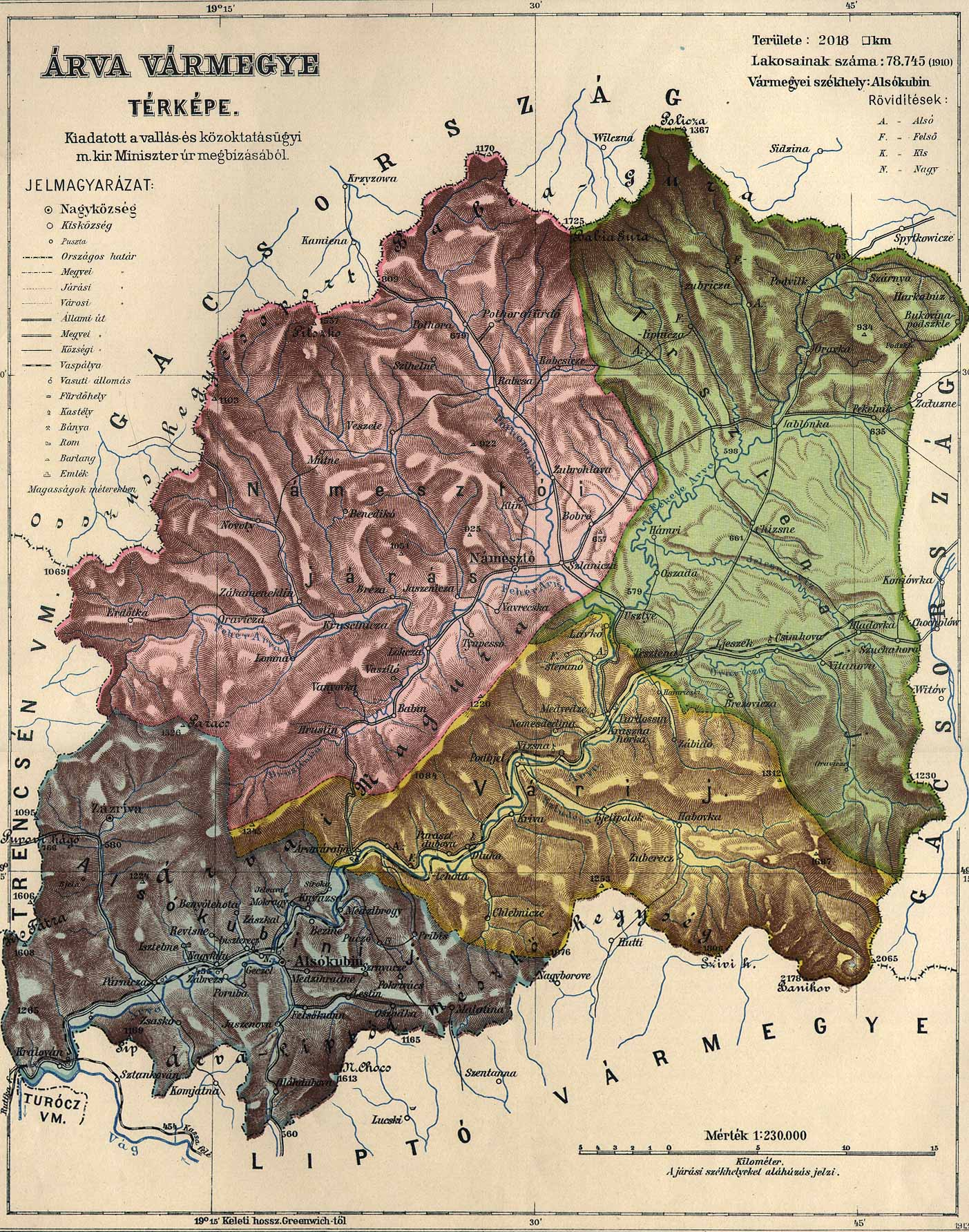 Old map of Orava, Slovakia from about 1910